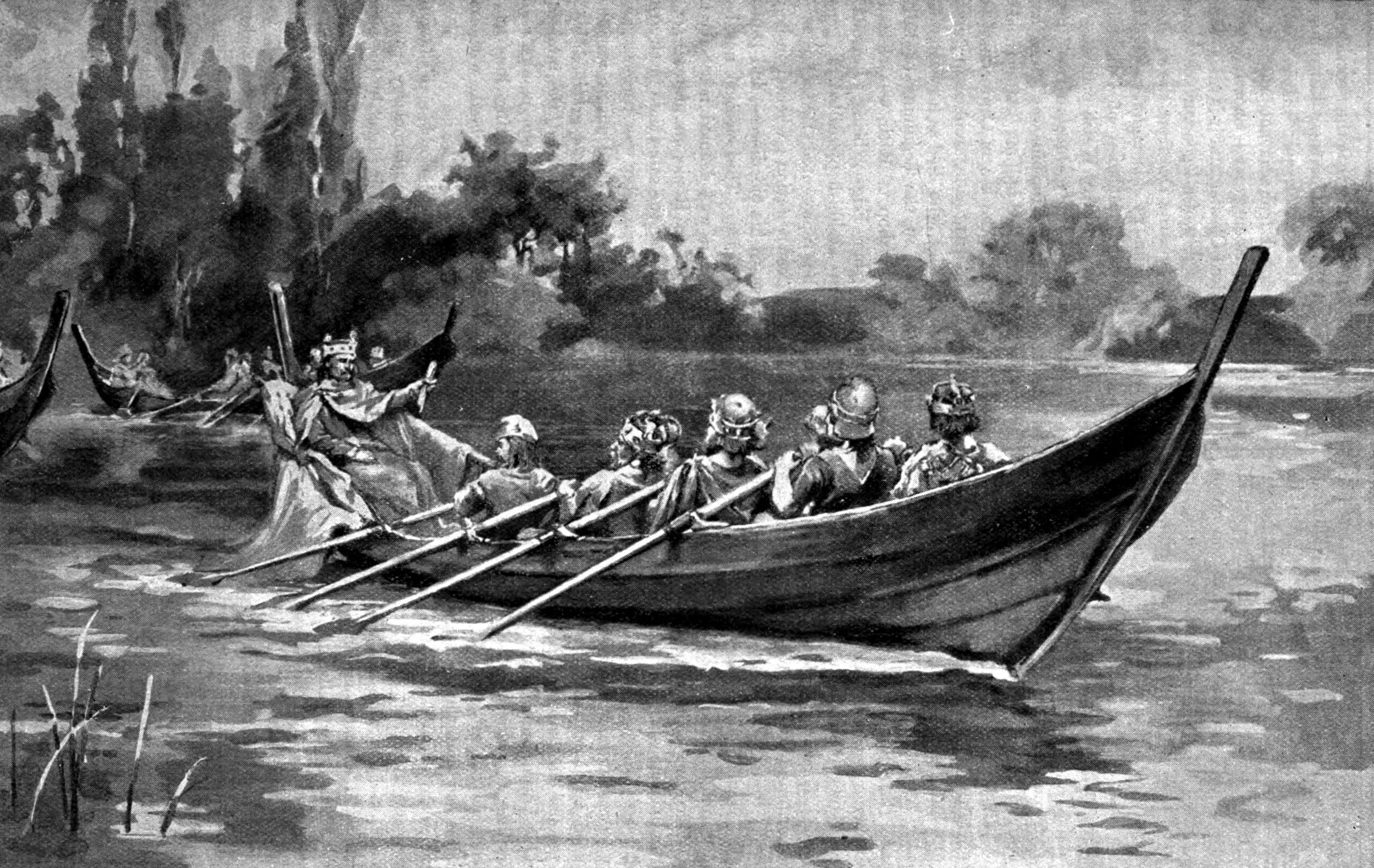 Illustration of Edgar, King of the English, being rowed on the River Dee by eight kings. The original caption reads: "Edgar the Peaceable being rowed down the Dee by eight tributary princes".